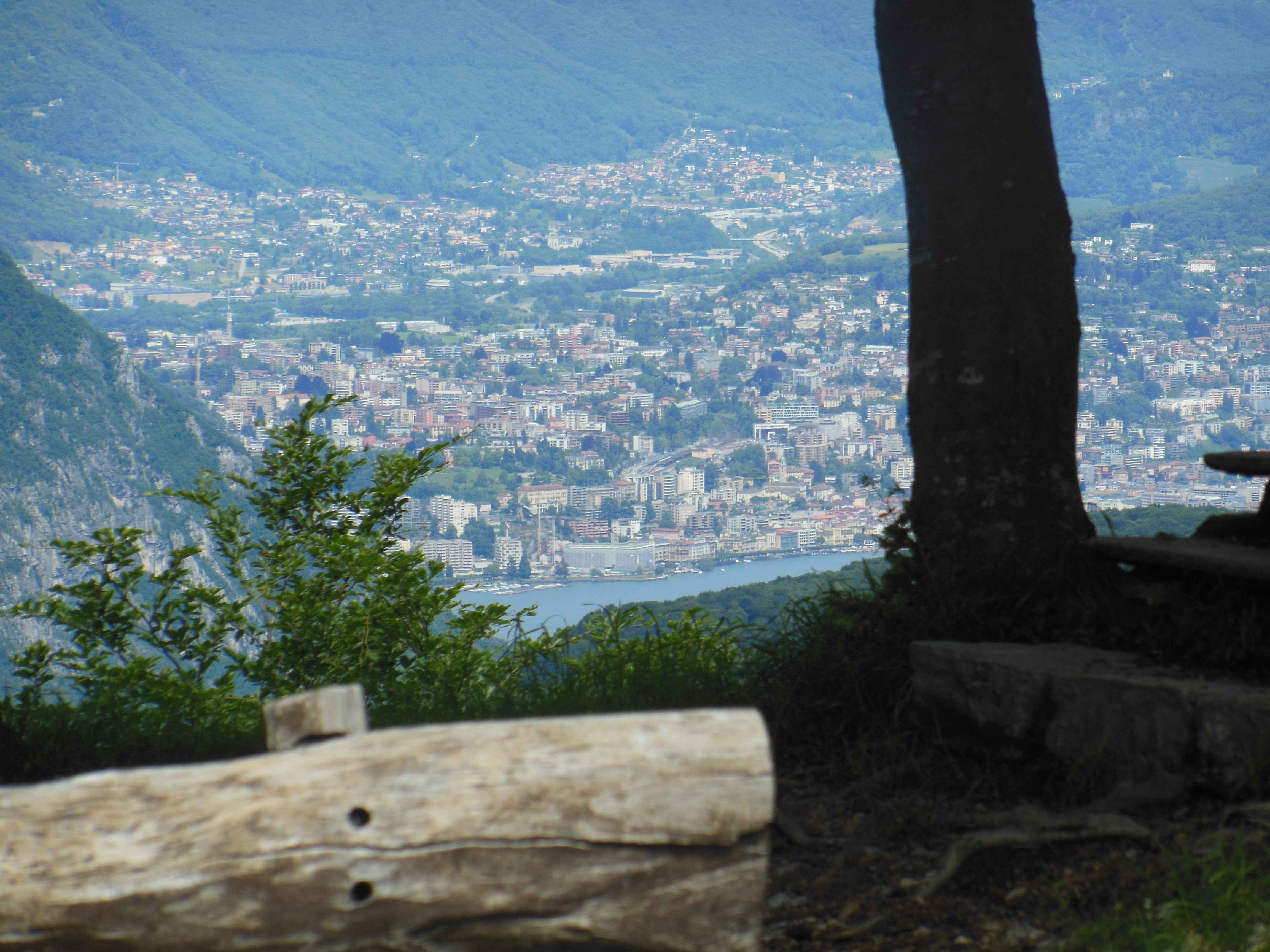 An indication as to why Bellavista railway station, on the Monte Generoso Railway, is so named. The city of Lugano can be seen, as can that city's railway station. For more information, see Wikipedia article Monte Generoso Railway.